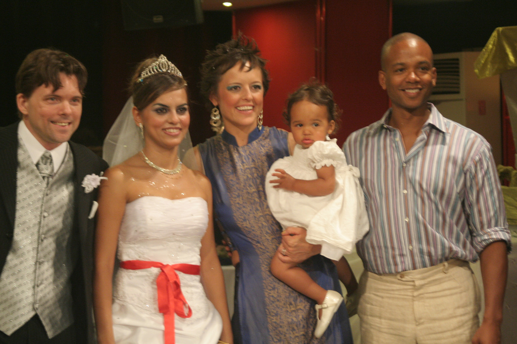 Modern Turkish wedding in Adana